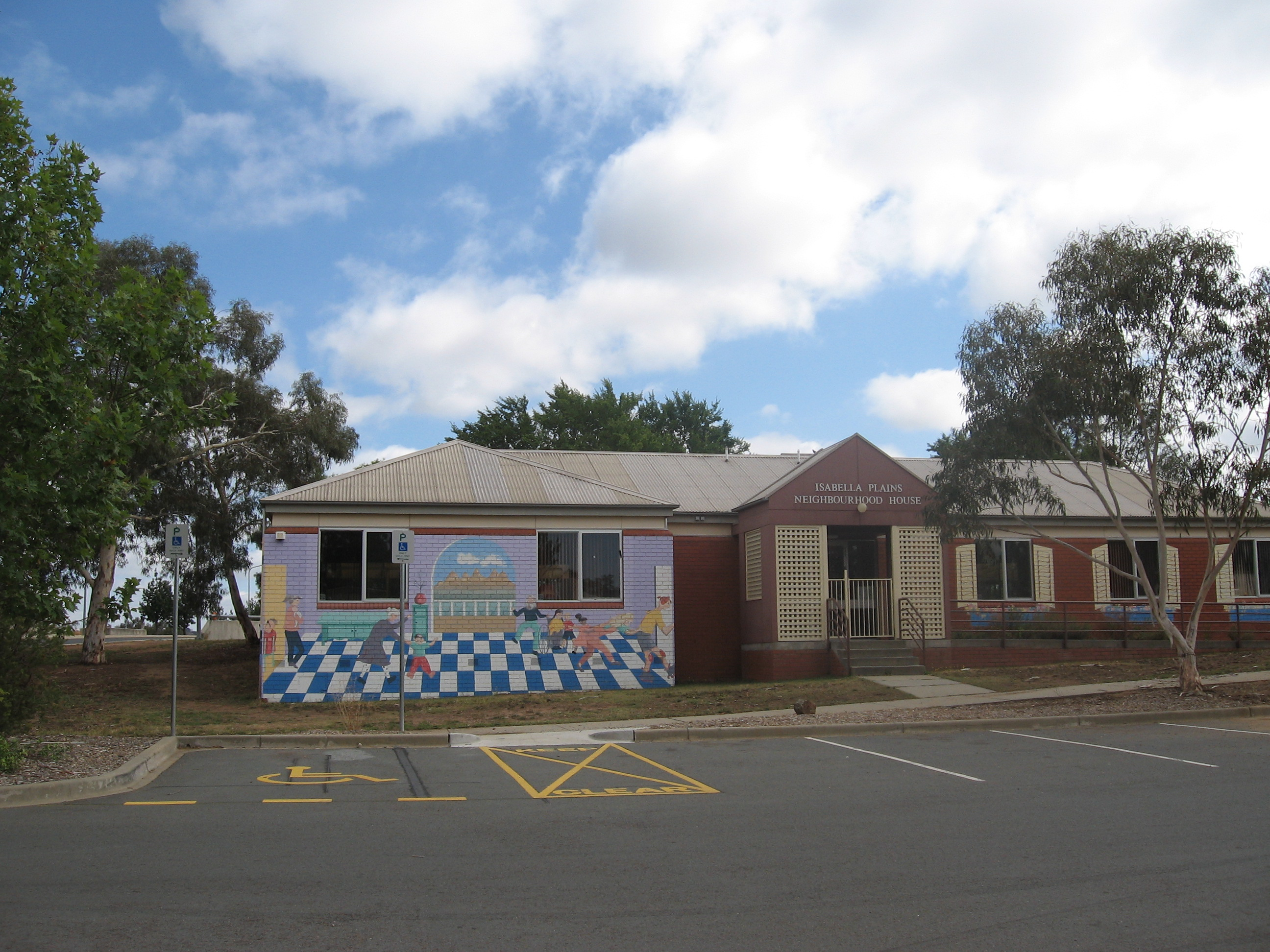 Isabella Plains Neighbourhood House. I took this photo myself